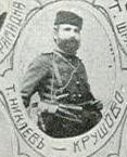 Portrait of IMARO member T. Niklev from Krushevo